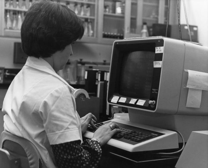 This 1980s photograph, taken within a Centers for Disease Control influenza testing laboratory, showed a laboratorian entering data into an influenza-specific database while seated at a computer workstation.